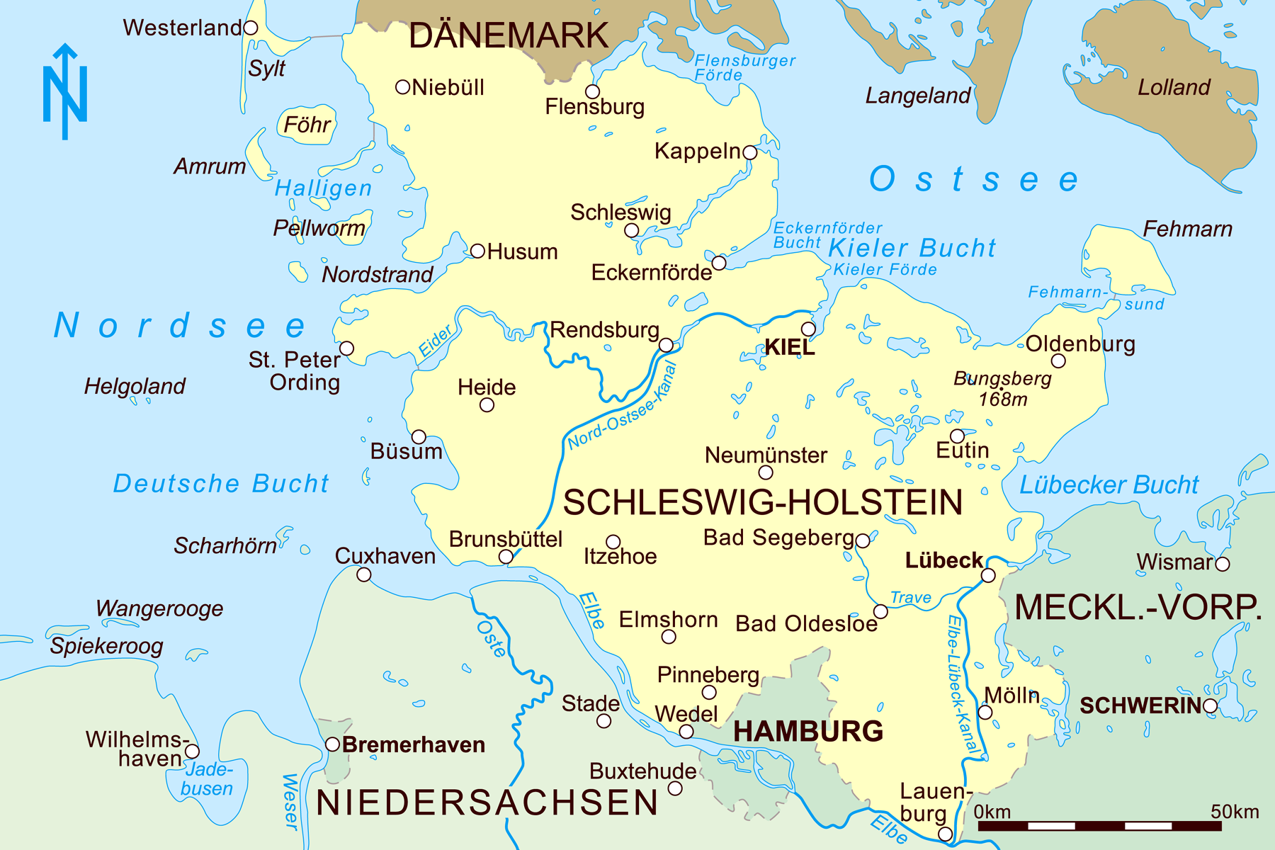 Map of Schleswig-Holstein with North Sea-Baltic Sea-Canal